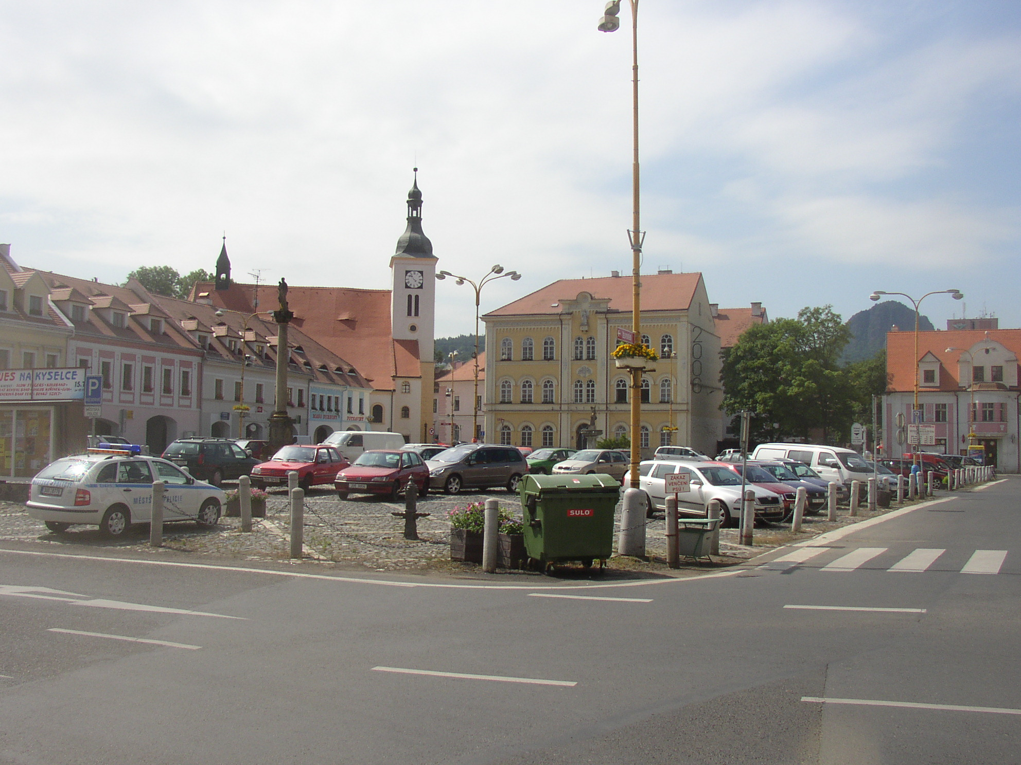 Peace Square in centre of Bílina, Teplice District, Czech Republic. A view from N corner towards SSE, in the square Marian column from 17th century, in the background SS Peter and Paul church.